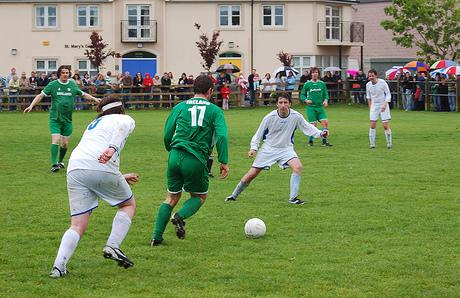 Comedians from the Cat Laughs Comedy Festival playing football in Kilkenny.